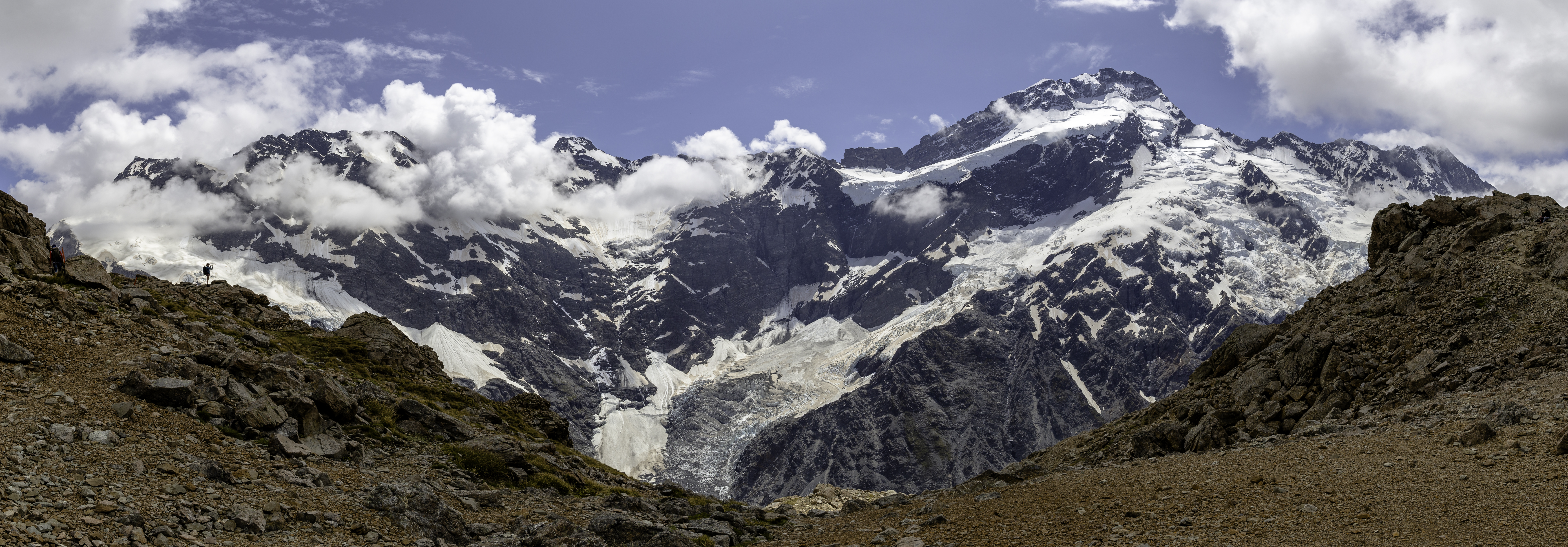 Mt Sefton massif, Aoraki/Mount Cook National Park, New Zealand